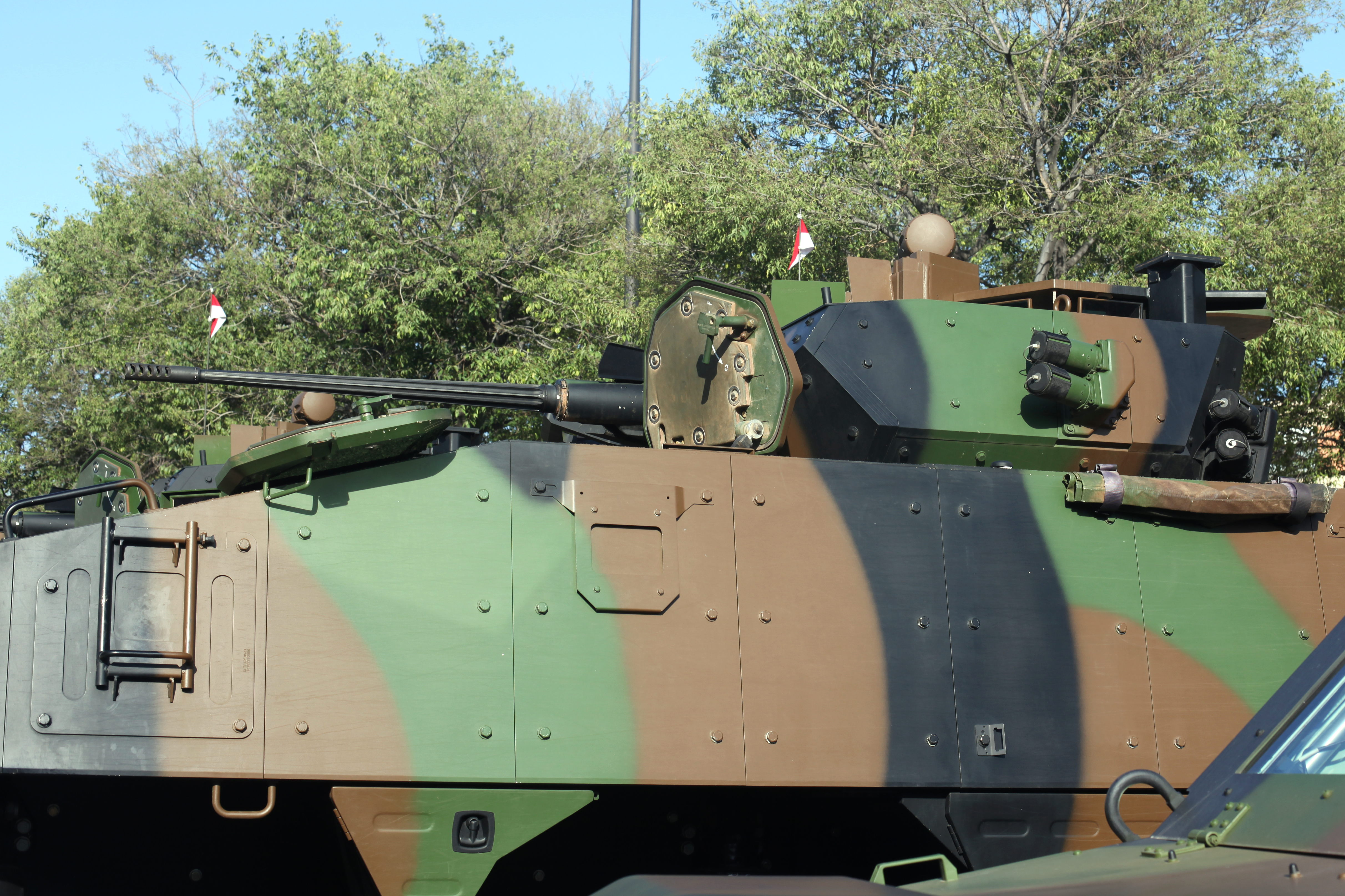 Véhicule blindé de combat d'infanterie of the 1er régiment de chasseurs d'Afrique during the military parade of 14 July 2012 in Marseille. The making of this document was supported by Wikimédia France. (Submit your project!)